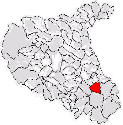 Map with limits of commune